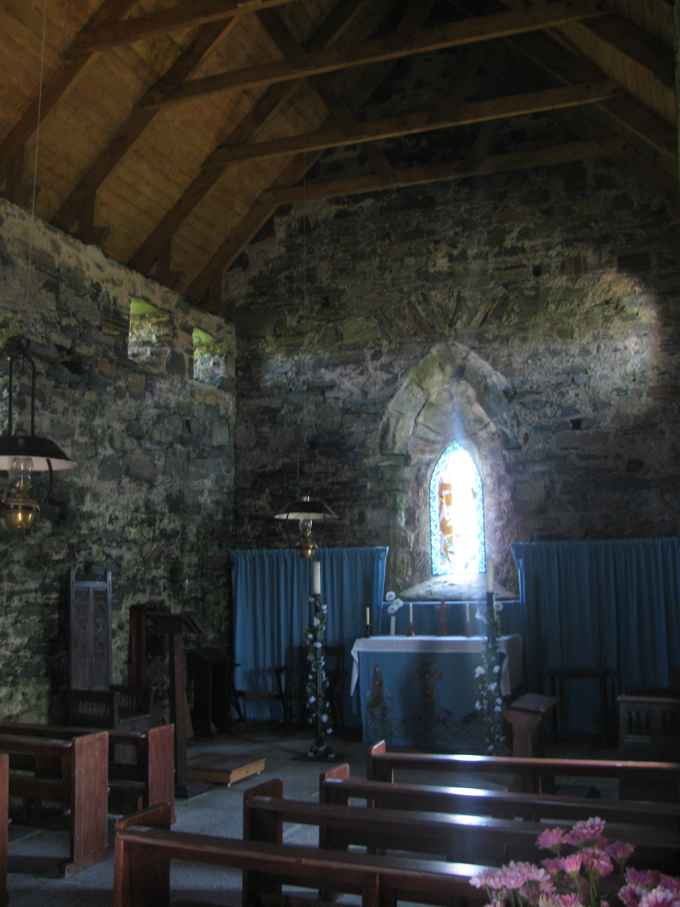 The Teampull Mholuaidh or St Moluag's church at Eoropie, Isle of Lewis, Scotland